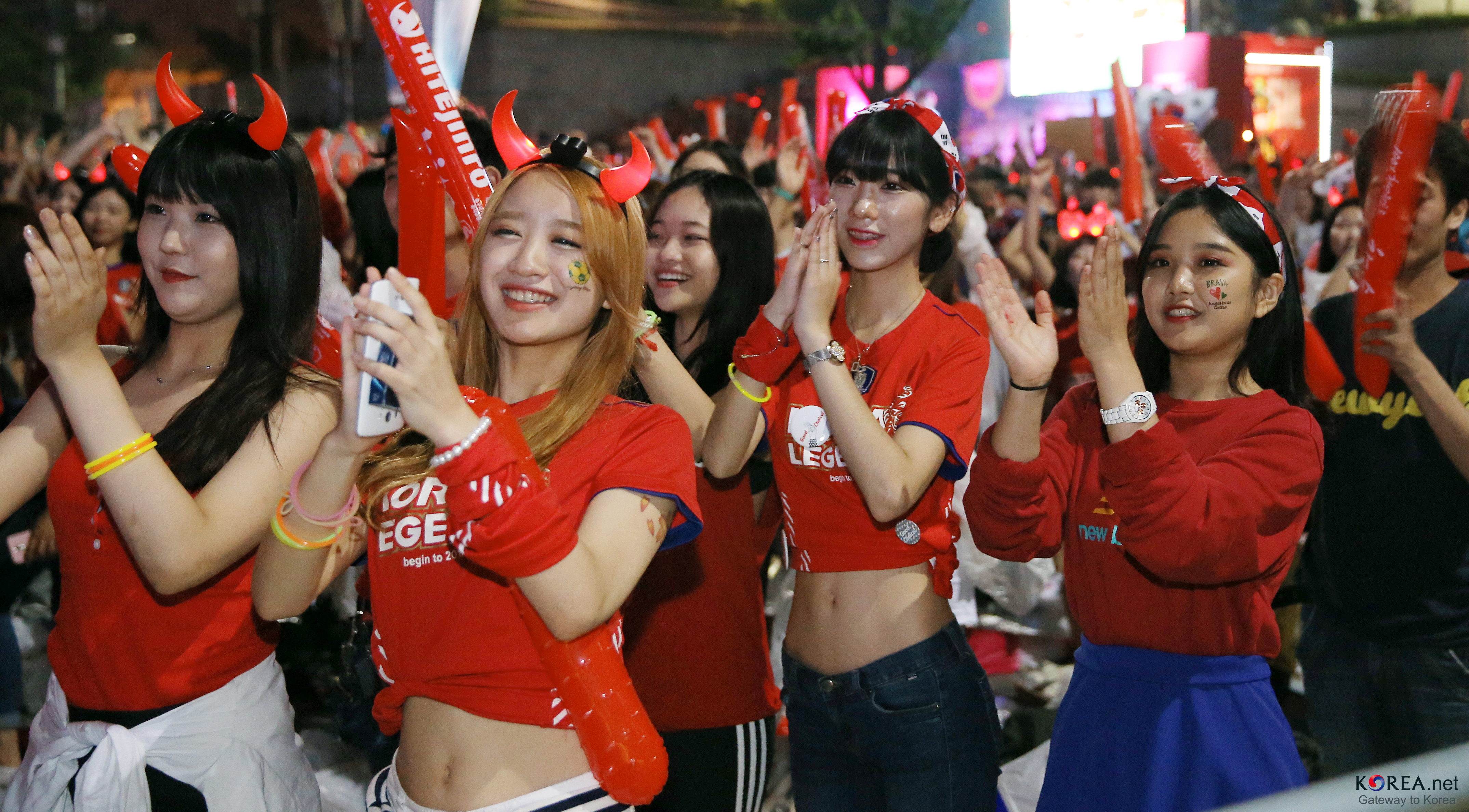 2014 FIFA World Cup in Brazil. Cheers for Team Korea. June 23, 2014. Gwanghwamun Square, Seoul